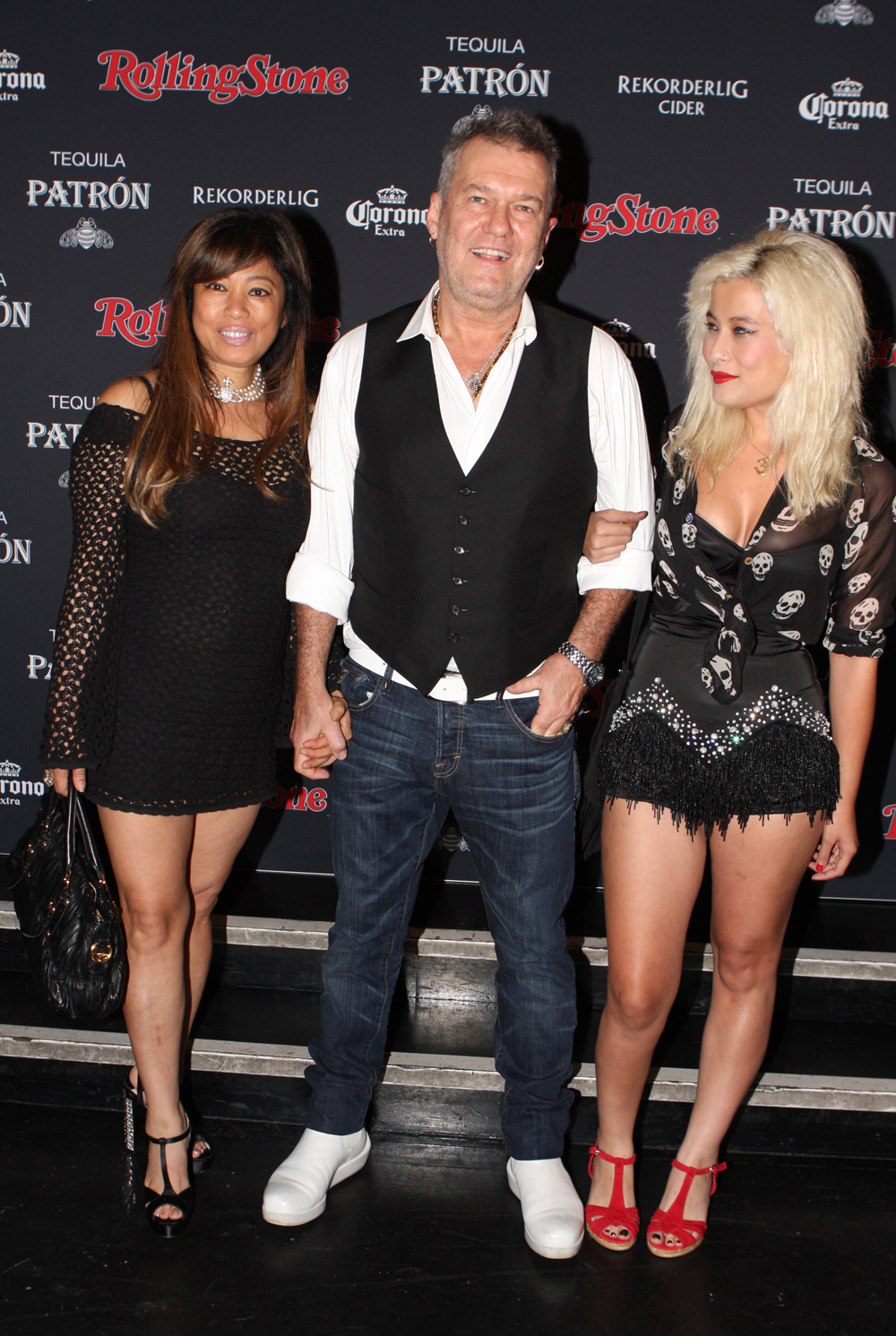 Jimmy Barnes with his wife Jane and daughter Eliza-Jane at The Rolling Stone Awards 2013: Beach Road Hotel, Bondi Beach, Sydney, Australia...)